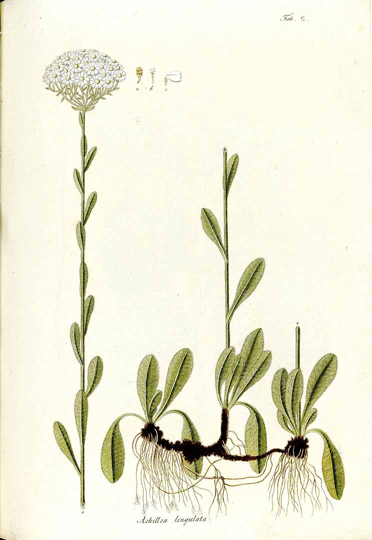 Achillea lingulata Waldst. & Kit. Waldstein, F. de Paula Adam von, Kitaibel, P., Descriptiones et icones plantarum rariorum Hungariae, vol. 1: t. 2 (1800-1812)